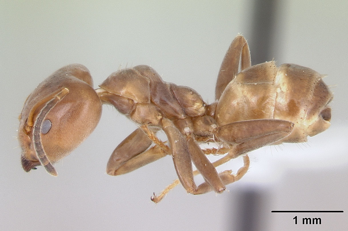 Profile view of ant Azteca adrepens specimen casent0173822.